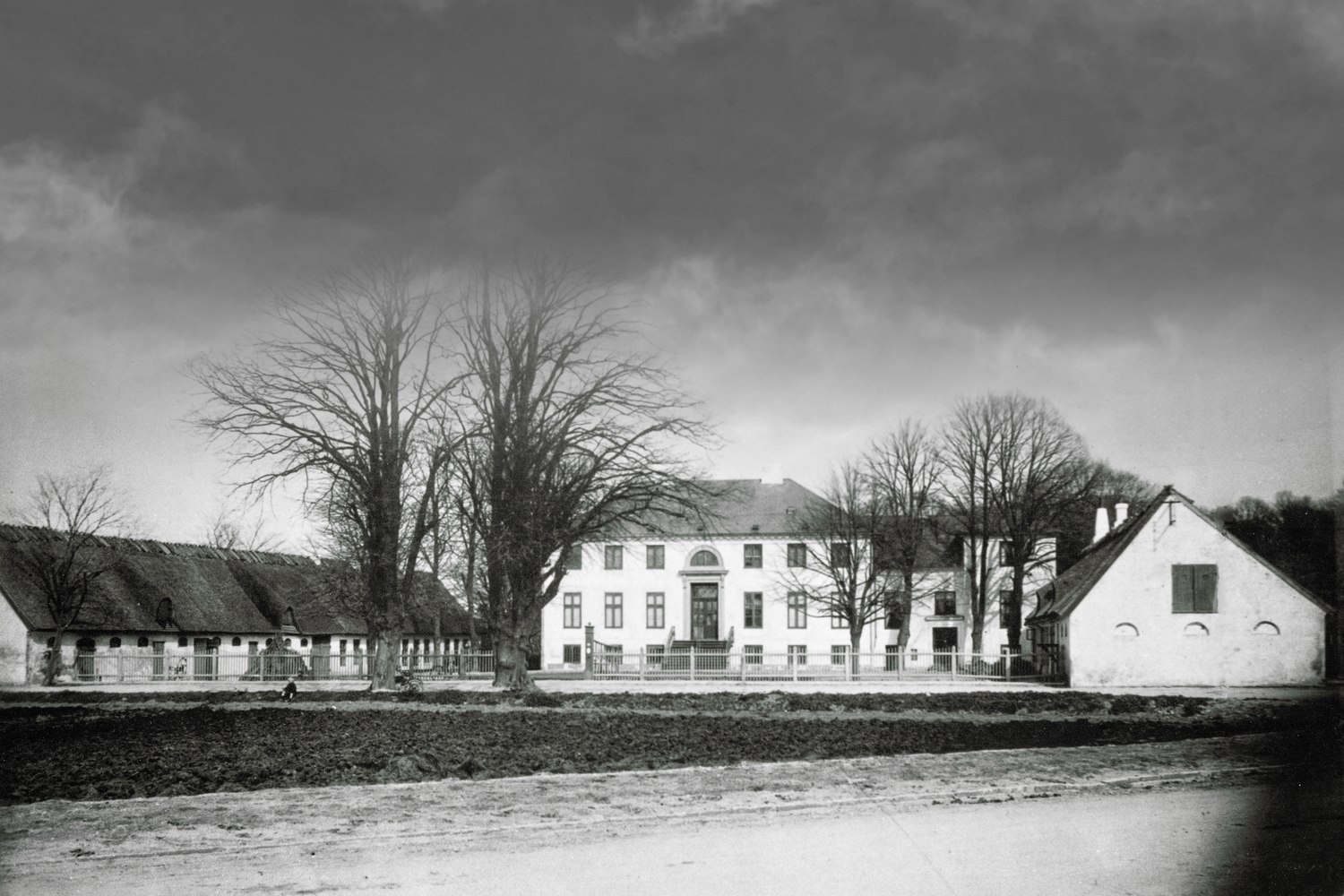 The farm Rygaard at Bernstorffsvej in Hentofte Municipality, Denmark. Now the site of St. Theresa's Church and Rygaard International School.